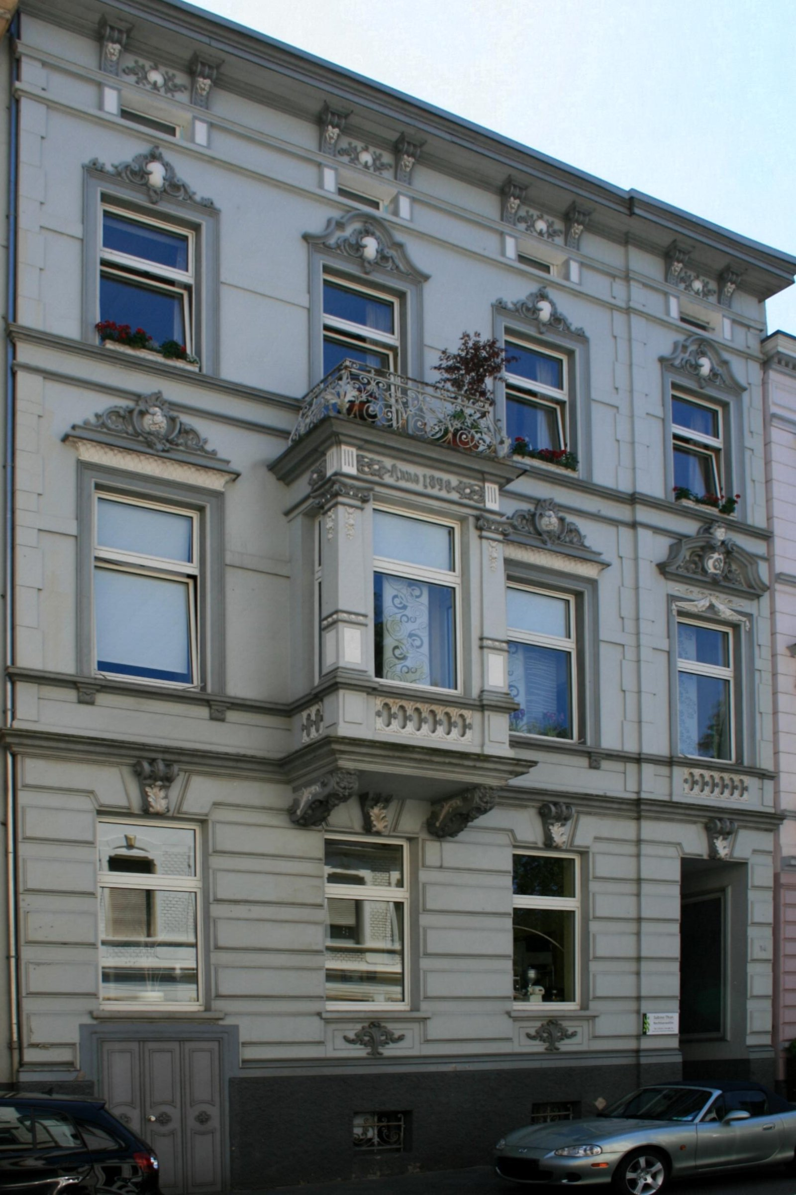 Cultural heritage monument No. F 031 in Mönchengladbach